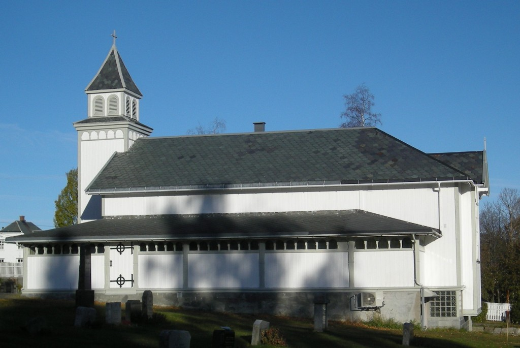 Gjøvik funeral chapel